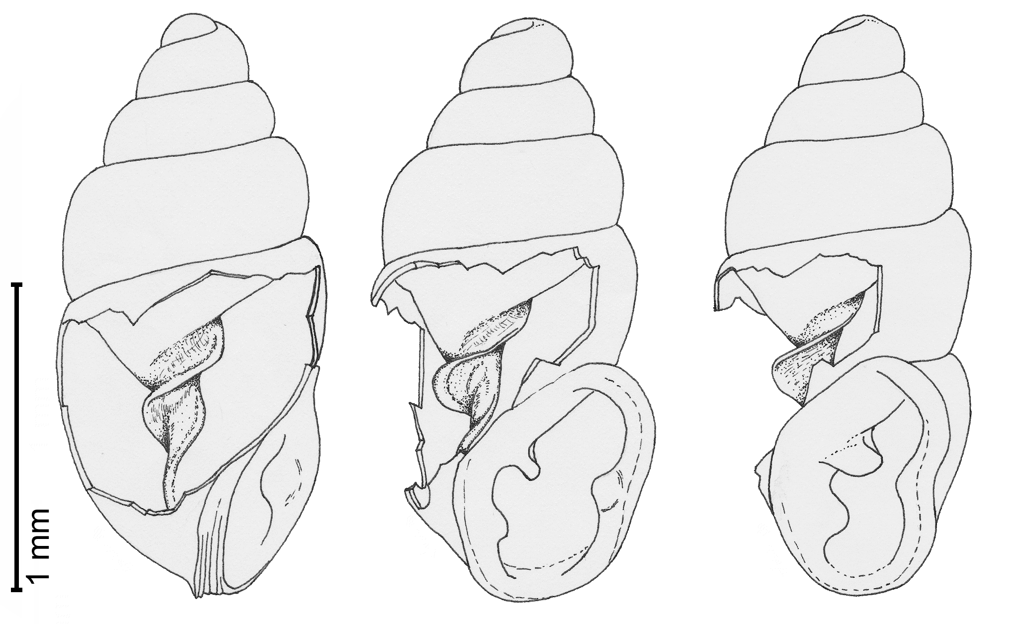 Carychium minimum, small pulmonate land snail species; different views of the same shell with part of the outer shell wall broken away to show the construction of the columellar plicae.